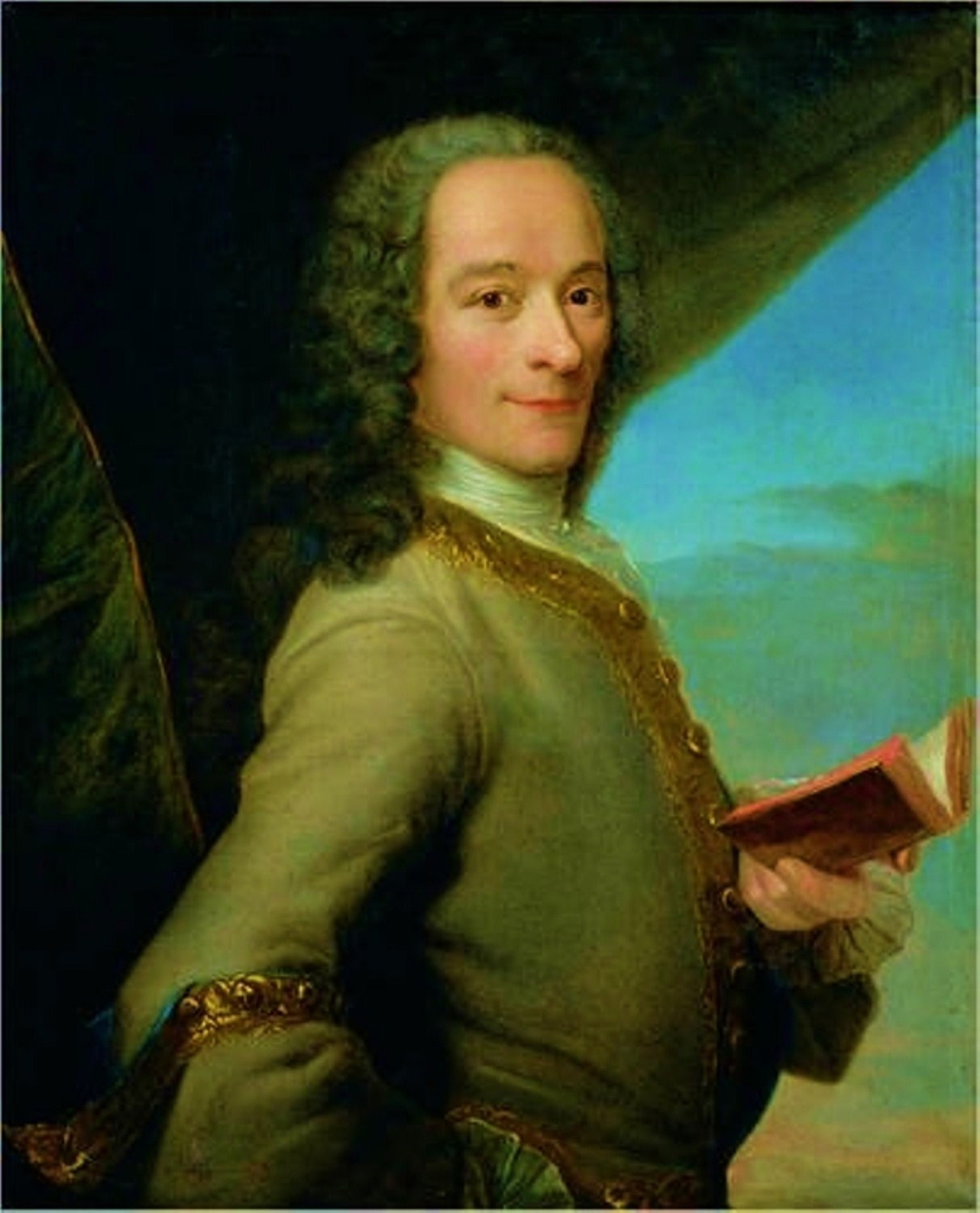 Depicted person: François-Marie Arouet (1694–1778), known as Voltaire, French Enlightenment writer and philosopher.